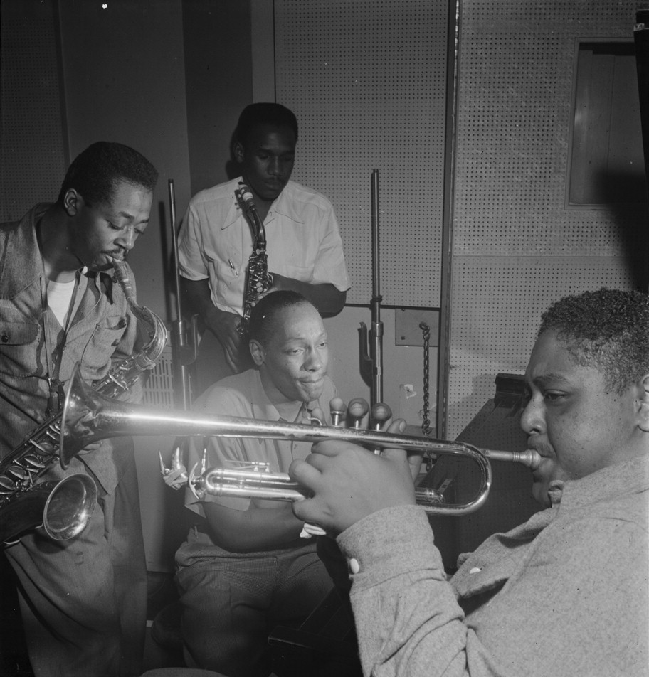 Fats Navarro, Charlie Rouse, Ernie Henry and Tadd Dameron. Photography by William P. Gottlieb (between 1946 and 1948).